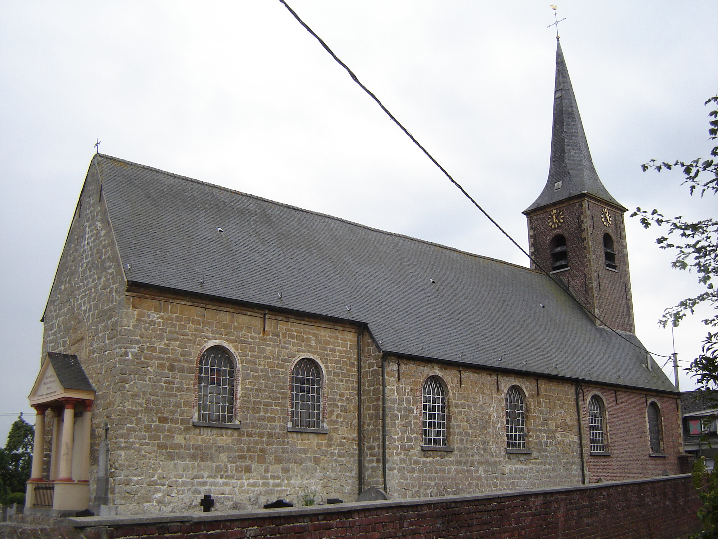 Church of Saint Amand in Hundelgem, Zwalm, East Flanders, Belgium.